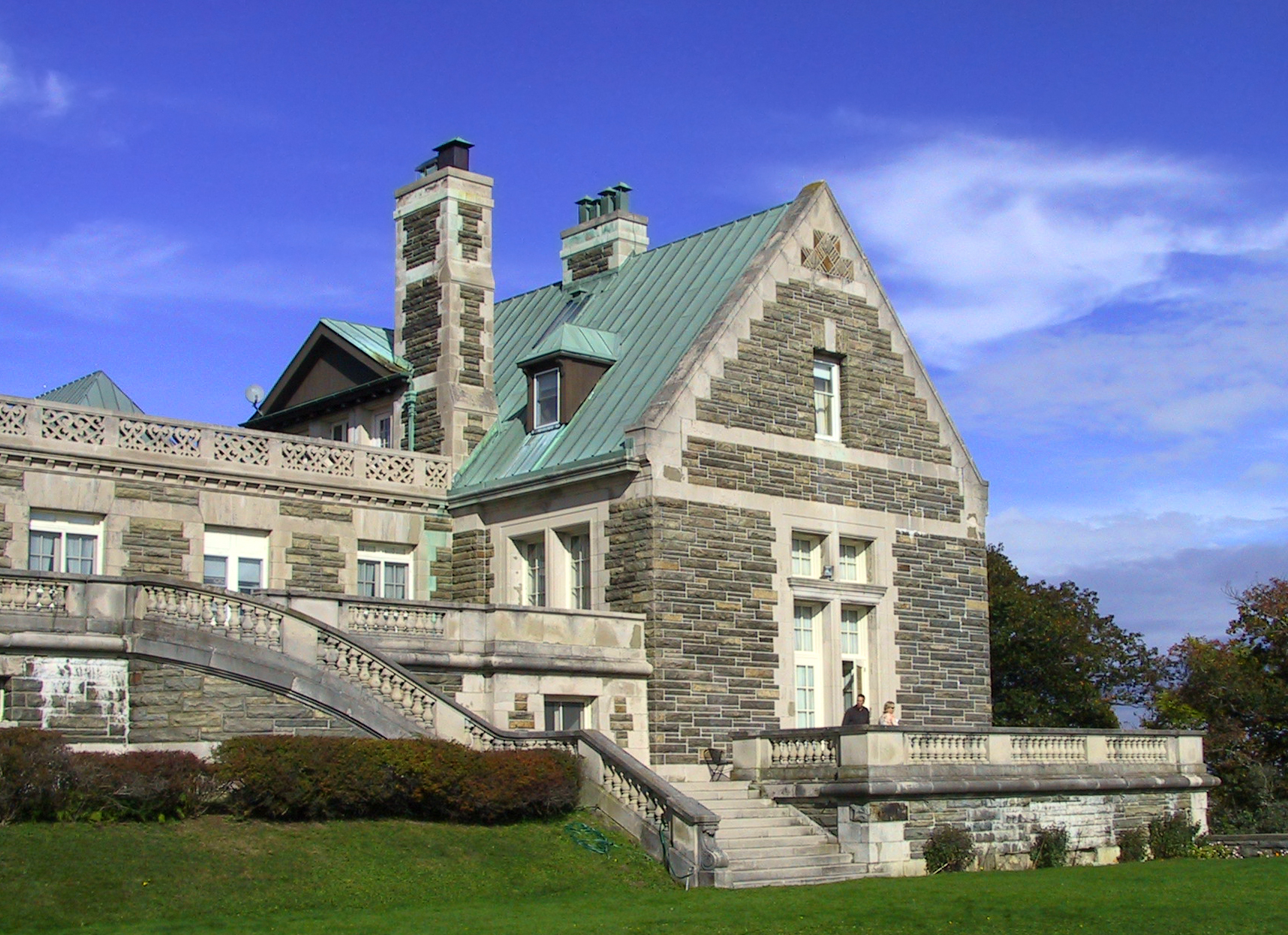 Arden House, former home to railroad magnate Edward H. Harriman. In 1950, his son Averell Harriman deeded the property to Columbia University which uses it as a center for executive management programs. It became a National Historic Landmark in 1966.